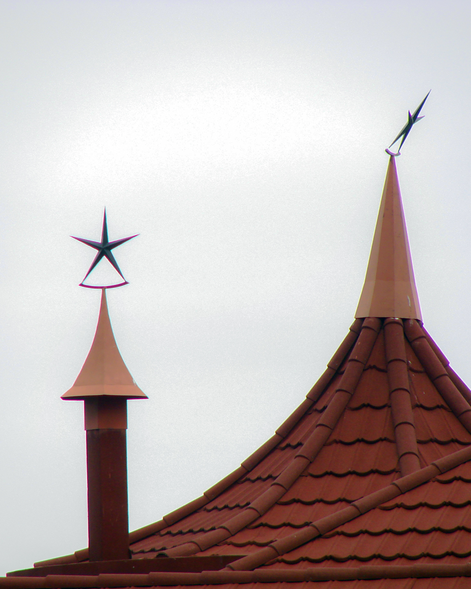 Shahrak-e Namak Abrud is a touristic village and has an aerial tramway which starts at the sea level near the shores of the Caspian Sea and ends on the top of the Alborz heights crossing dense forest area of northern Iran. There are numerous villa cities around it which form a vacation region for the people of Tehran.